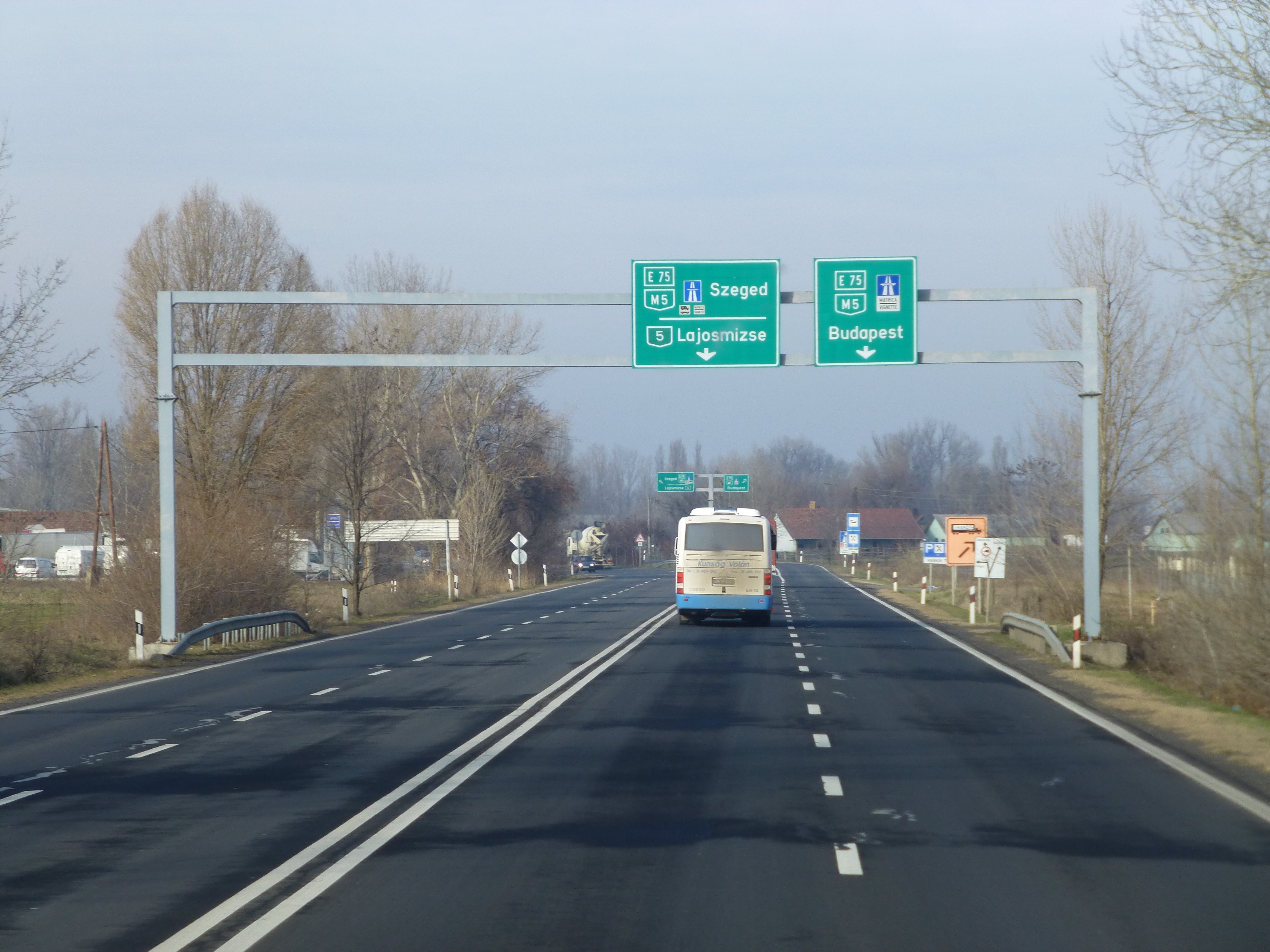 The Hungarian national main route nr. 5; North of Kecskemét